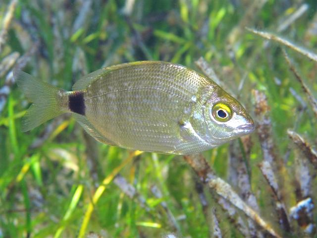 Diplodus annularis photographed in Minorca.